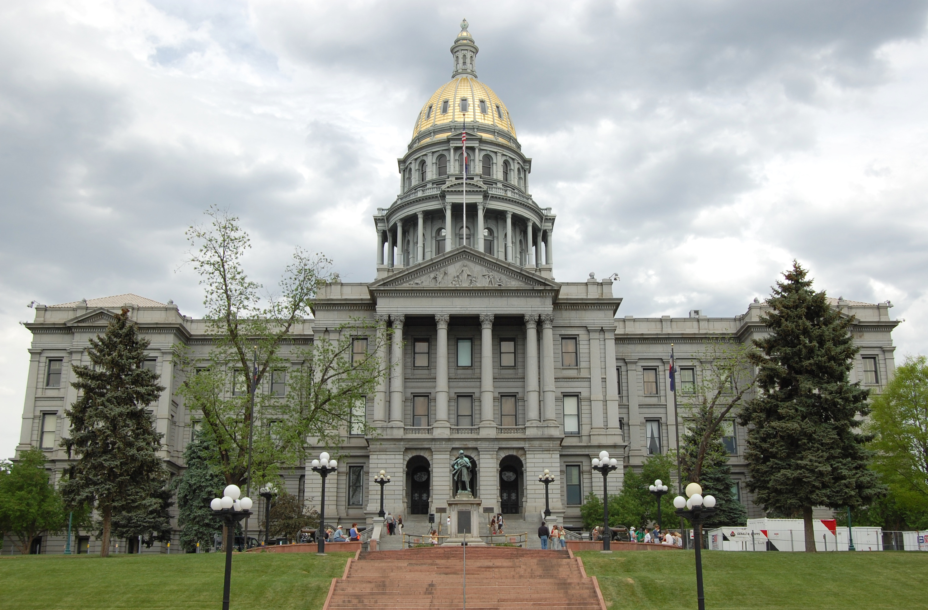 my own shot; release under GFDL; picture taken by Cris Gonzales